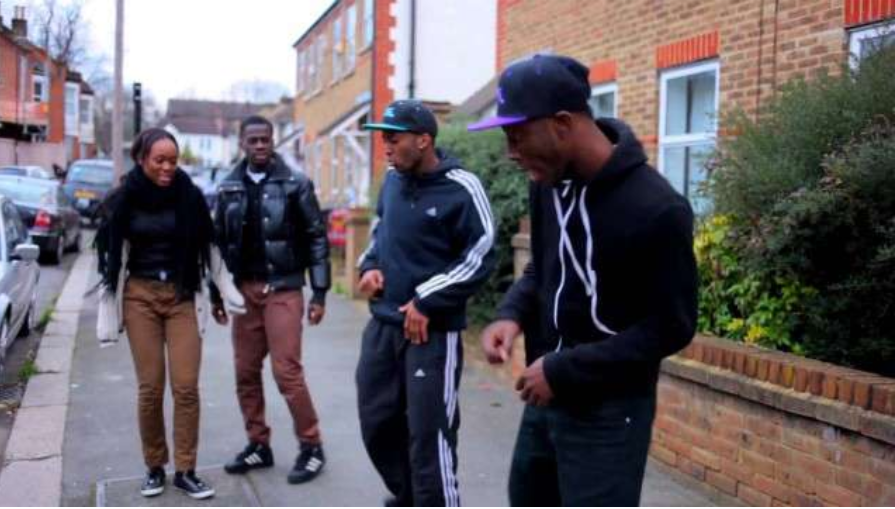 Group of dancers showcasing the azonto moves.